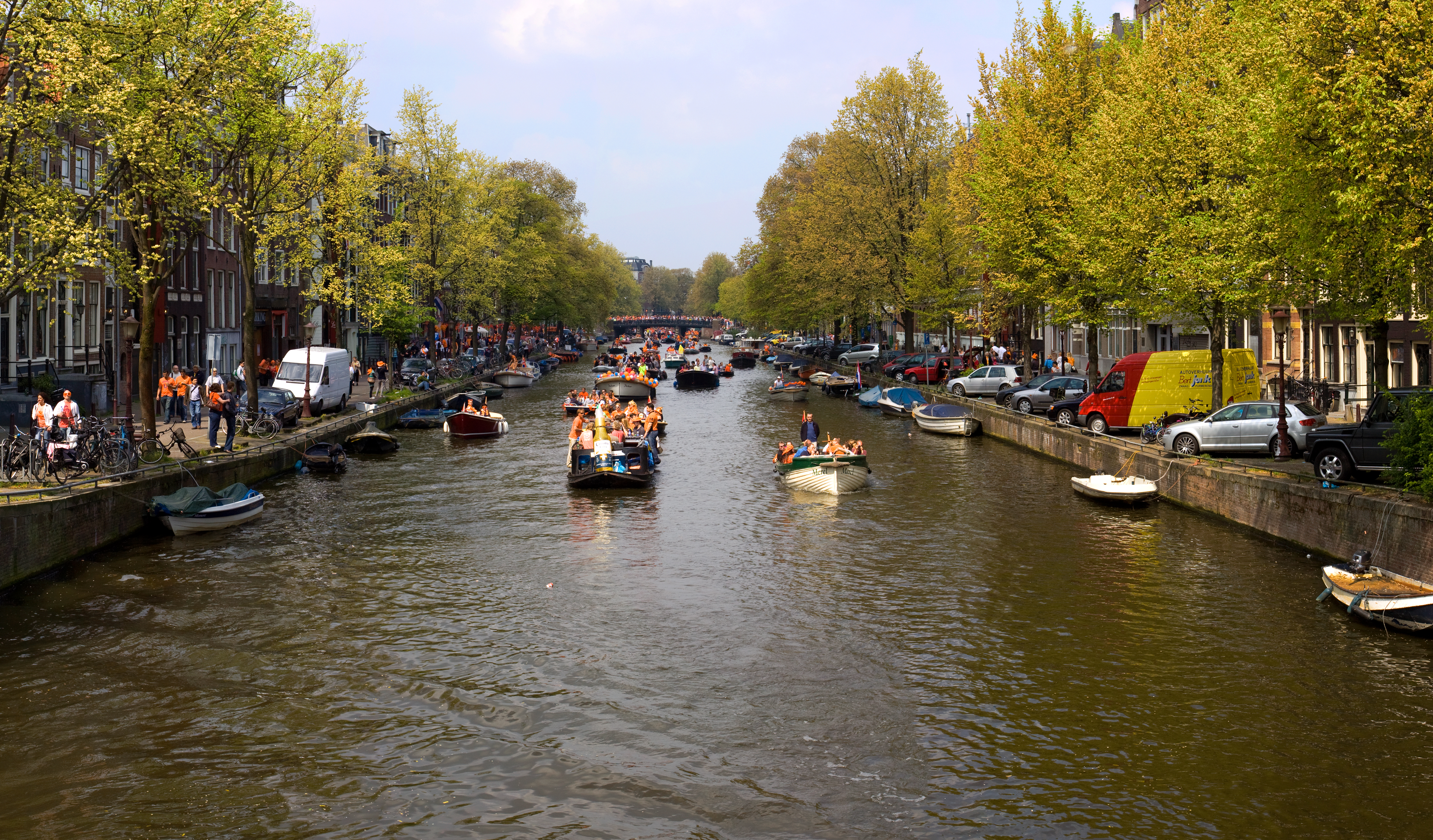 Queen's Day 2009 in Amsterdam, the Netherlands.